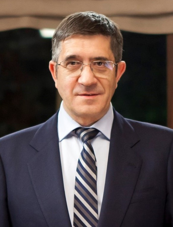 Patxi López in 2011.